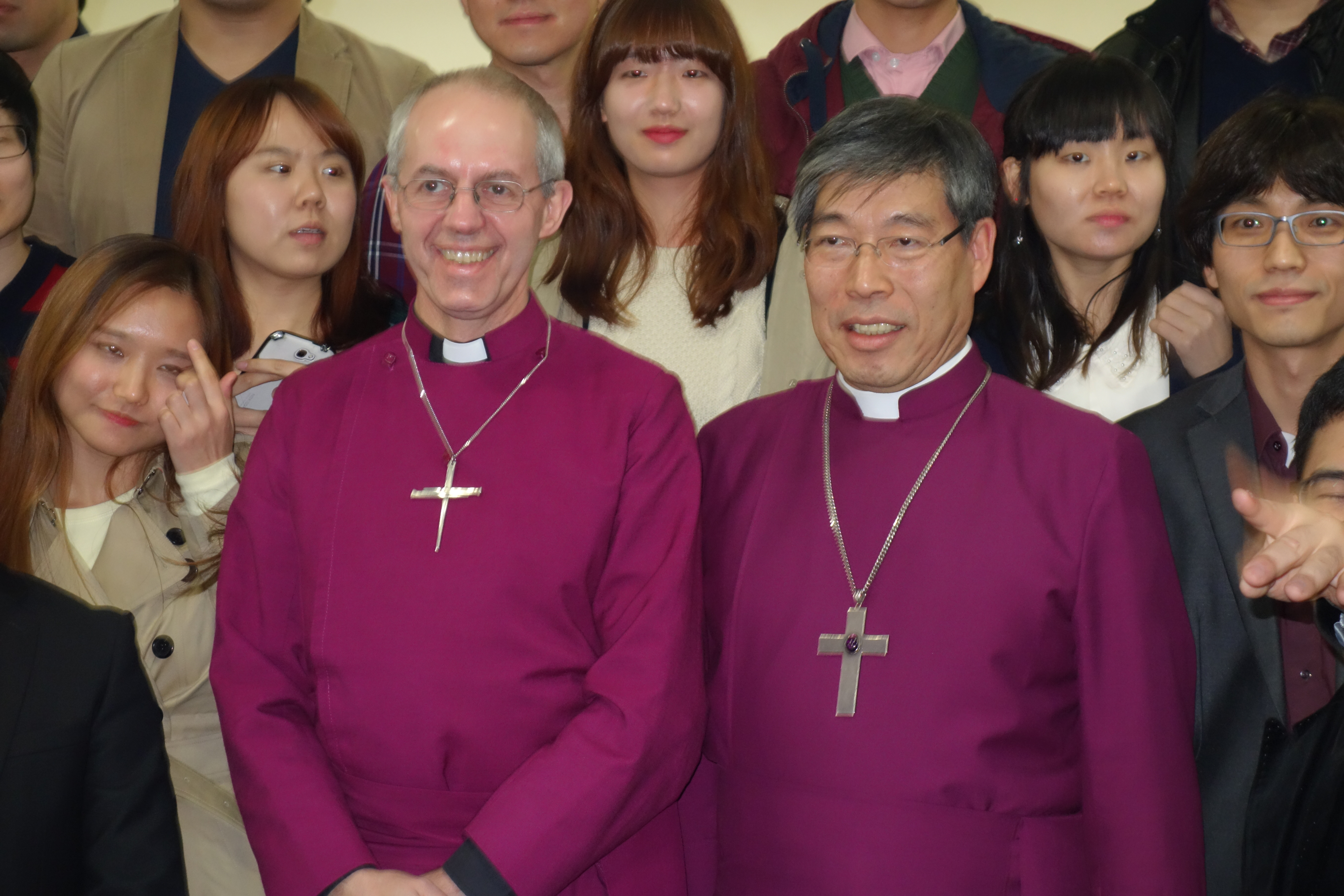 Justin Welby, the Archbishop of Canterbury, Kim Geun-Sang, the Archbishop of Seoul and Korea, and some korean Anglican youth poses, on the event of talk with christian youth, in the Seoul Anglican Cathedral, at November 3, 31st week in ordinary weeks, 2013, 3 pm